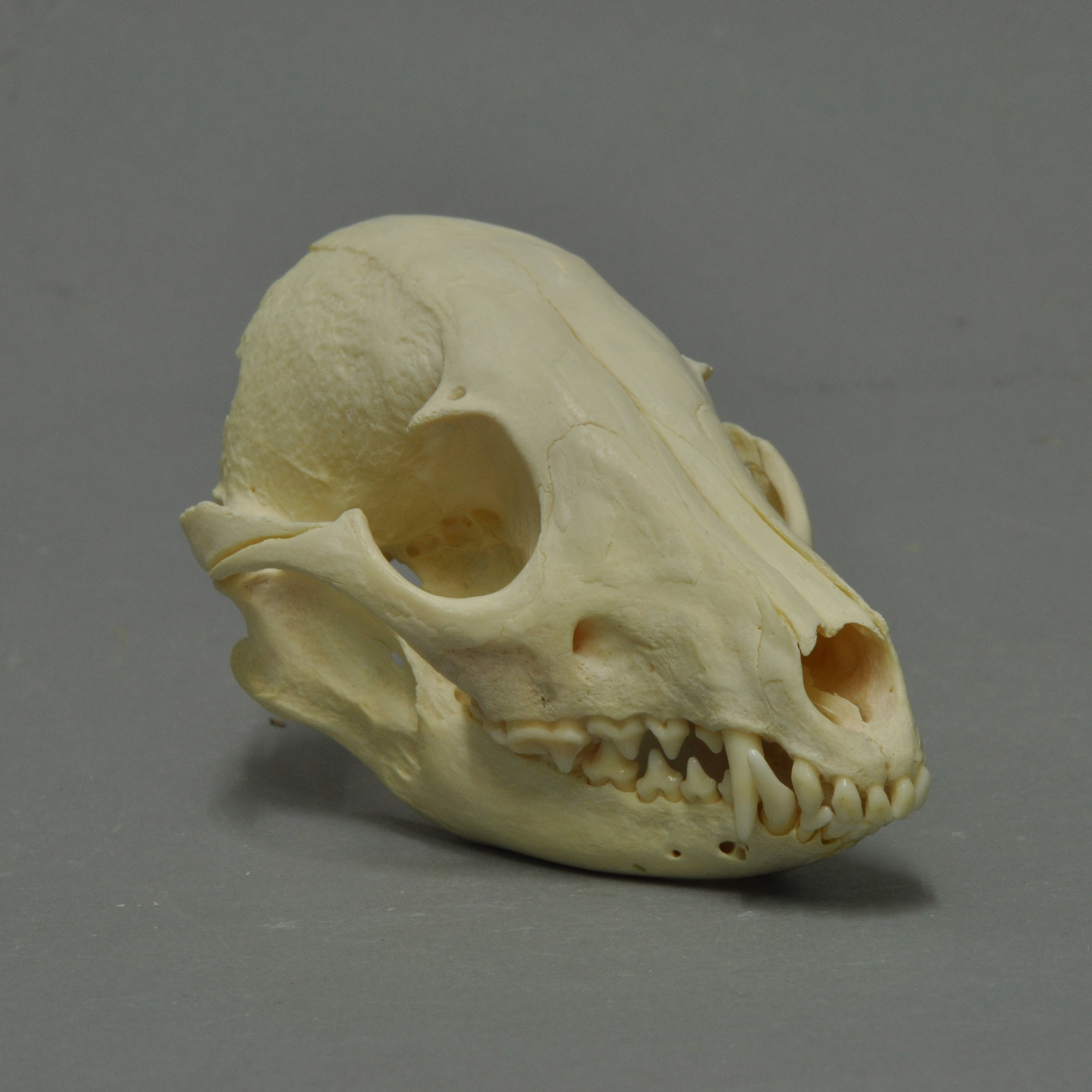 raccoon dog , skull, Coll. Museum Wiesbaden